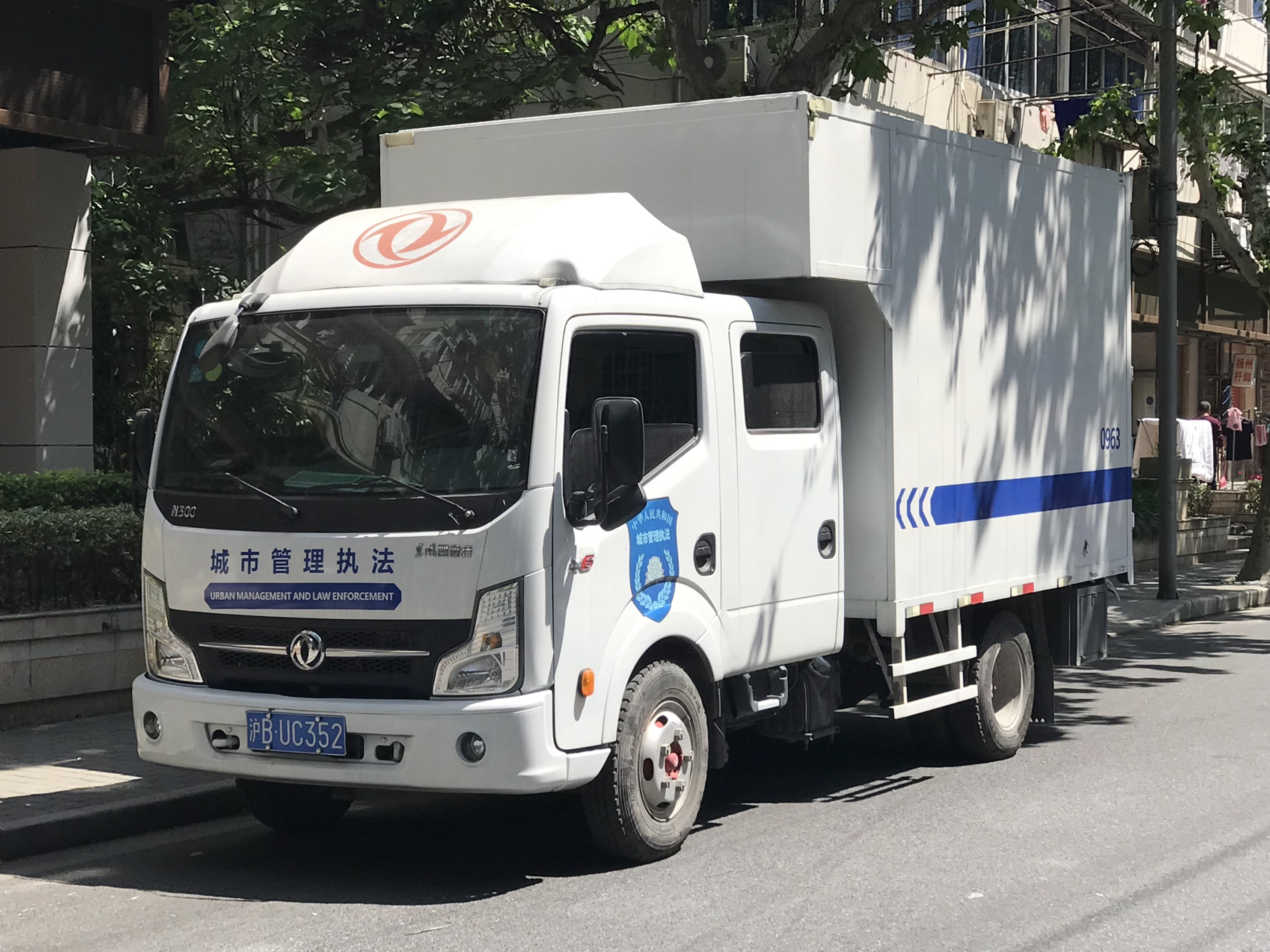 Dongfeng Kaipute N300 crew cab